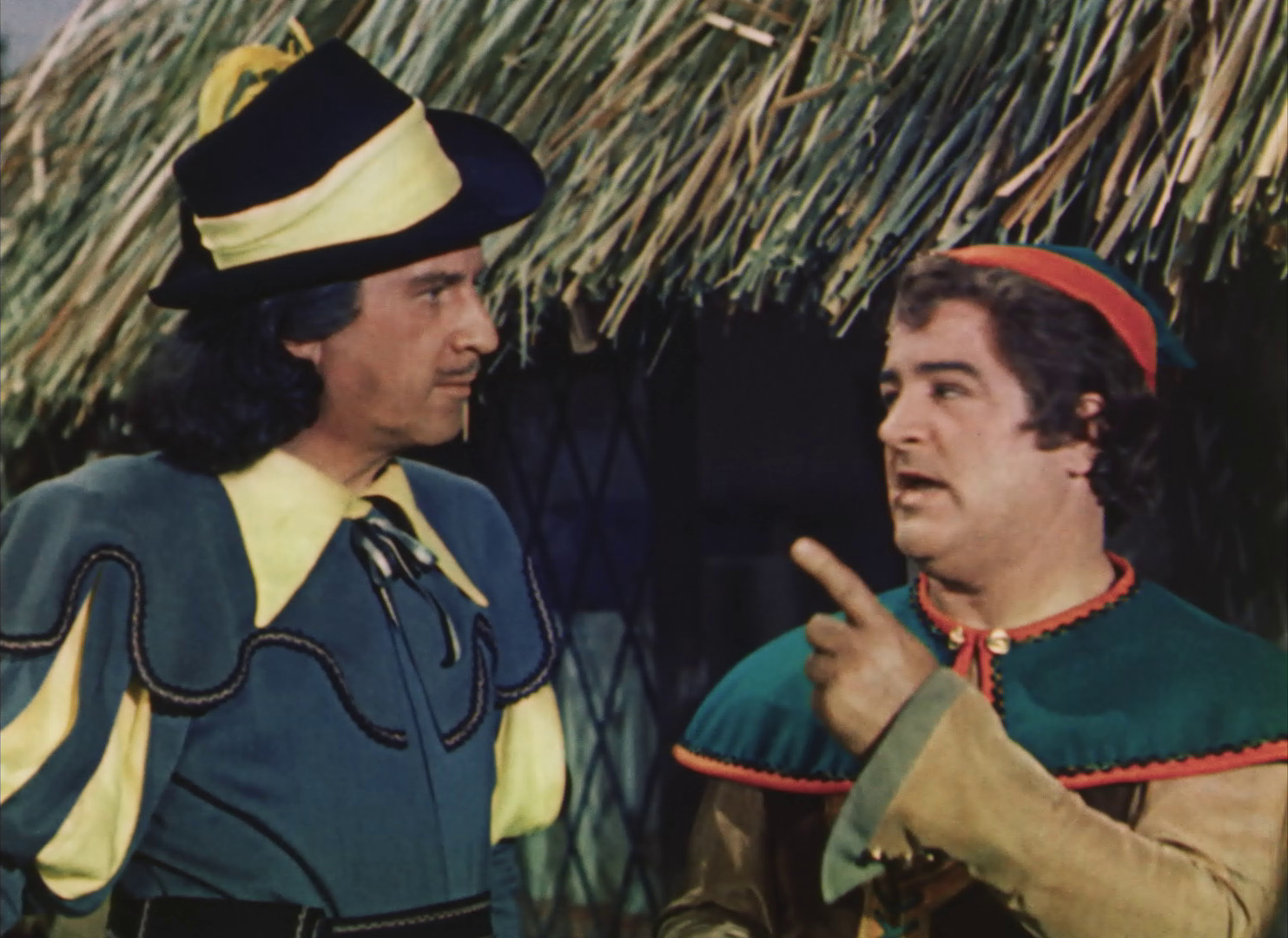 Abbott and Costello in Jack and the Beanstalk (1952) - cropped screenshot